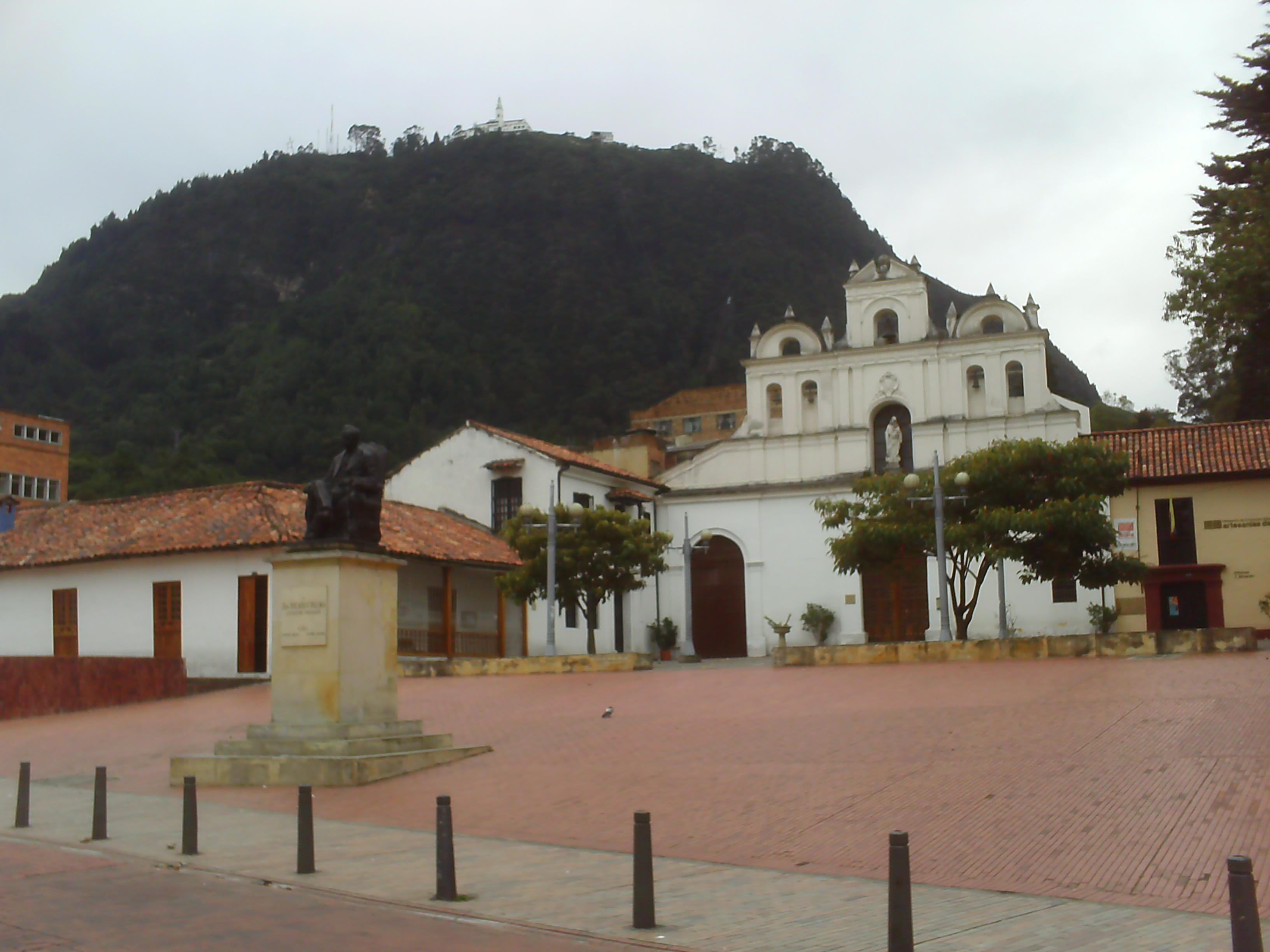 Las Aguas church in Bogota